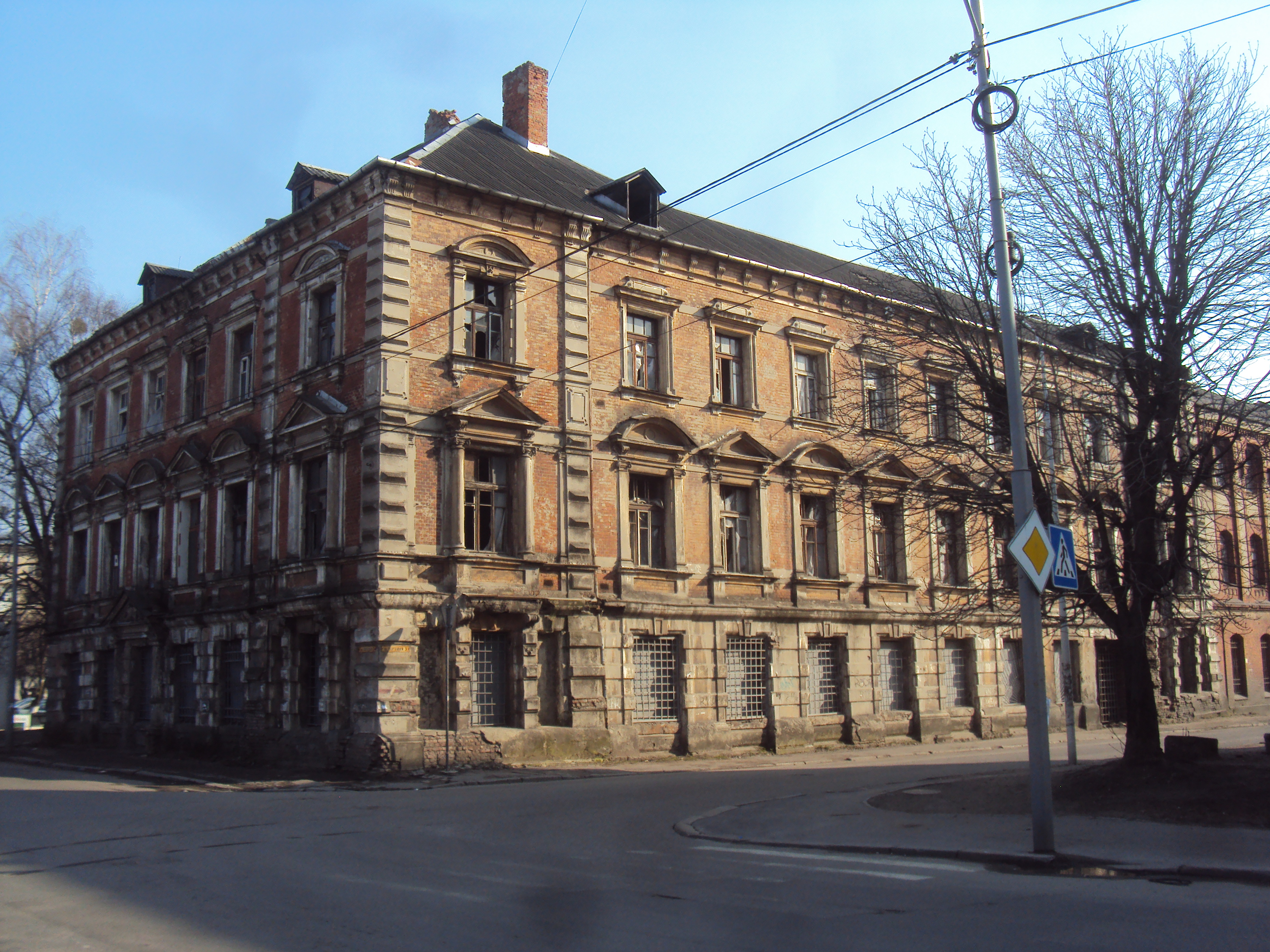 Building Amber Manufactory